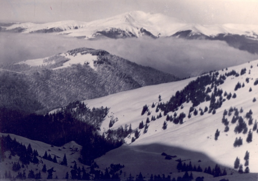 Hoverla. Panorama view. Hoverla is the highest point of Ukraine.